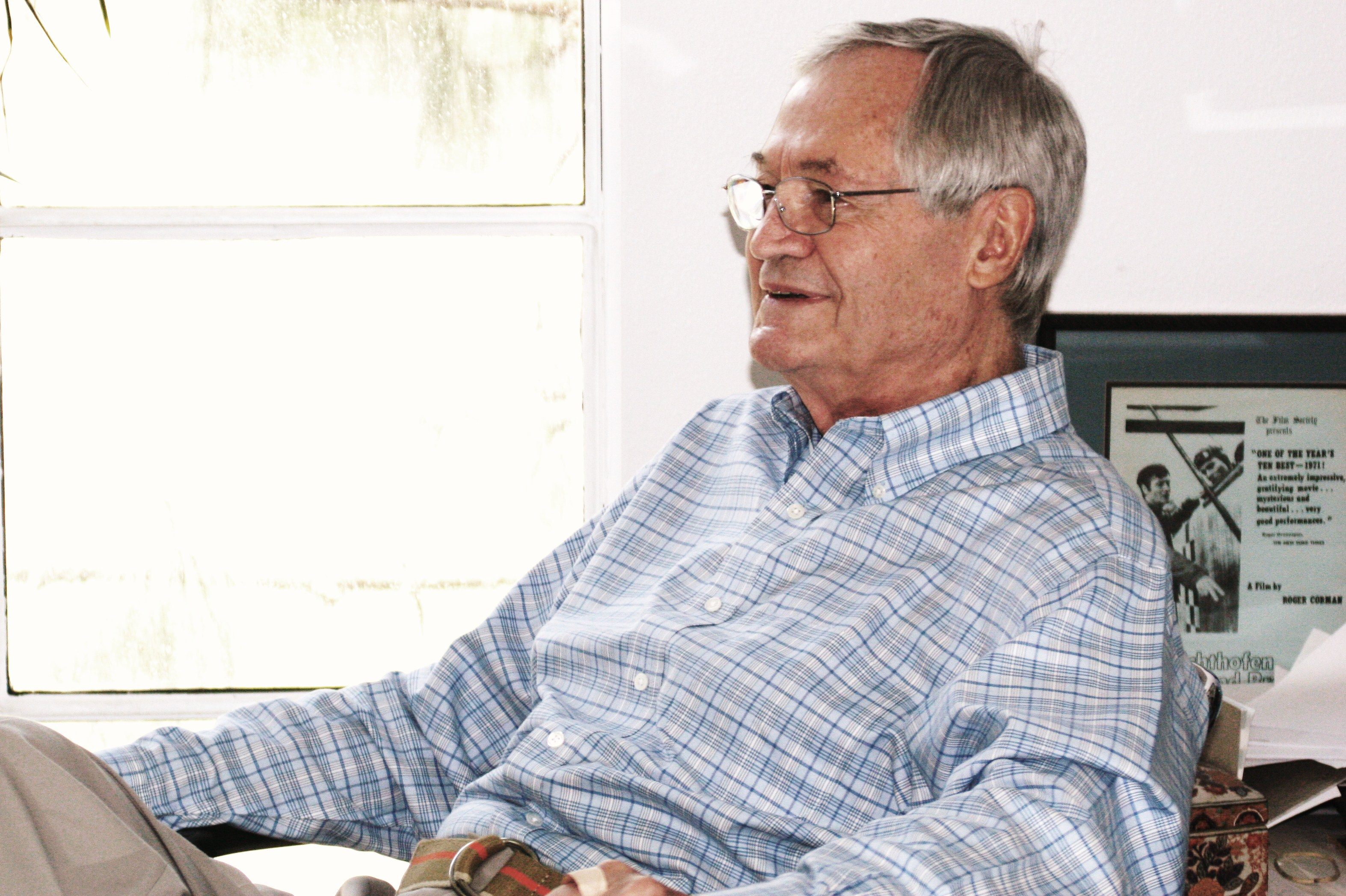 American filmmaker Roger Corman.